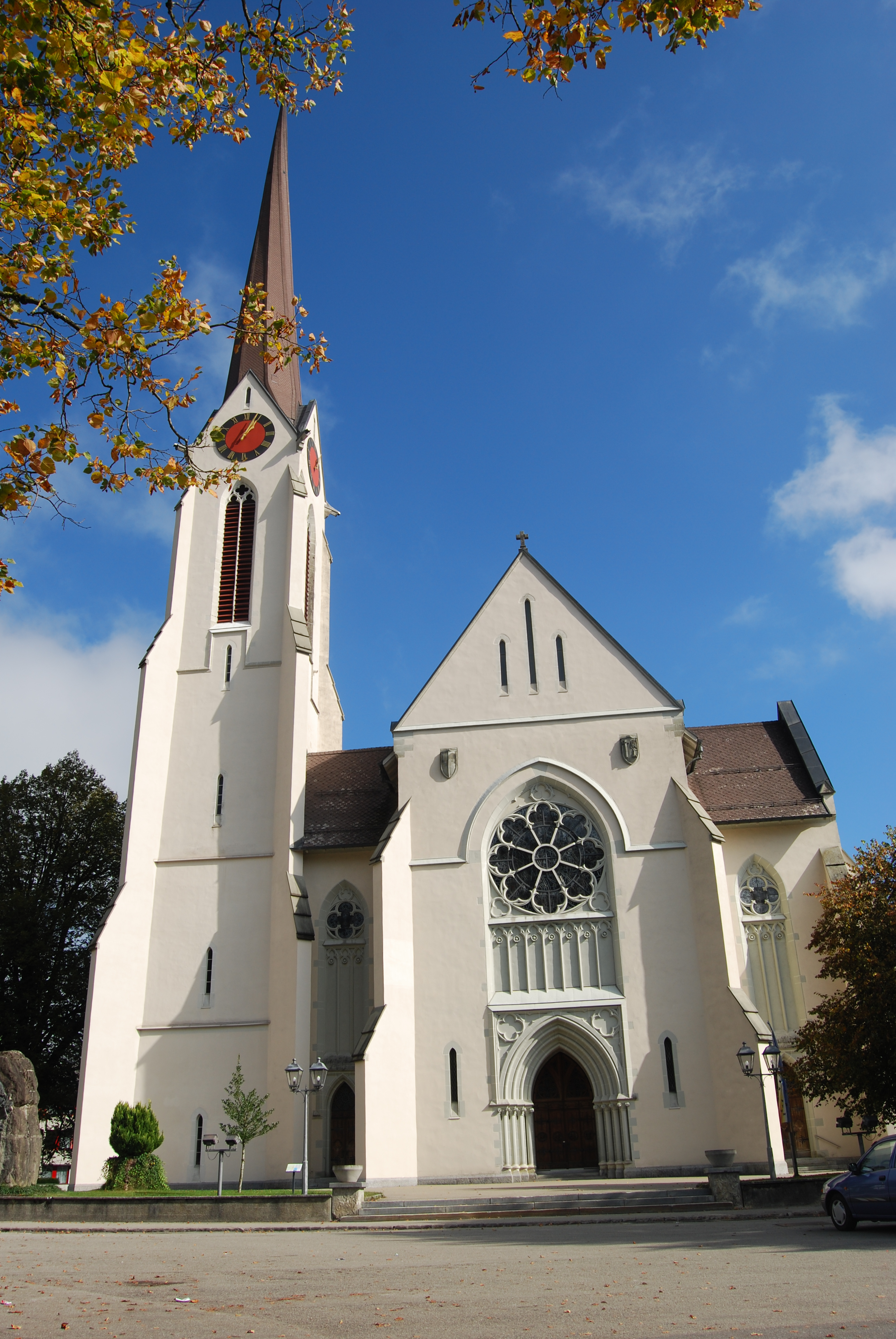 Church of Escholzmatt, canton of Luzern, SwitzerlandEsperanto: Preĝejo de Escholzmatt, Kantono Lucerno, Svislando